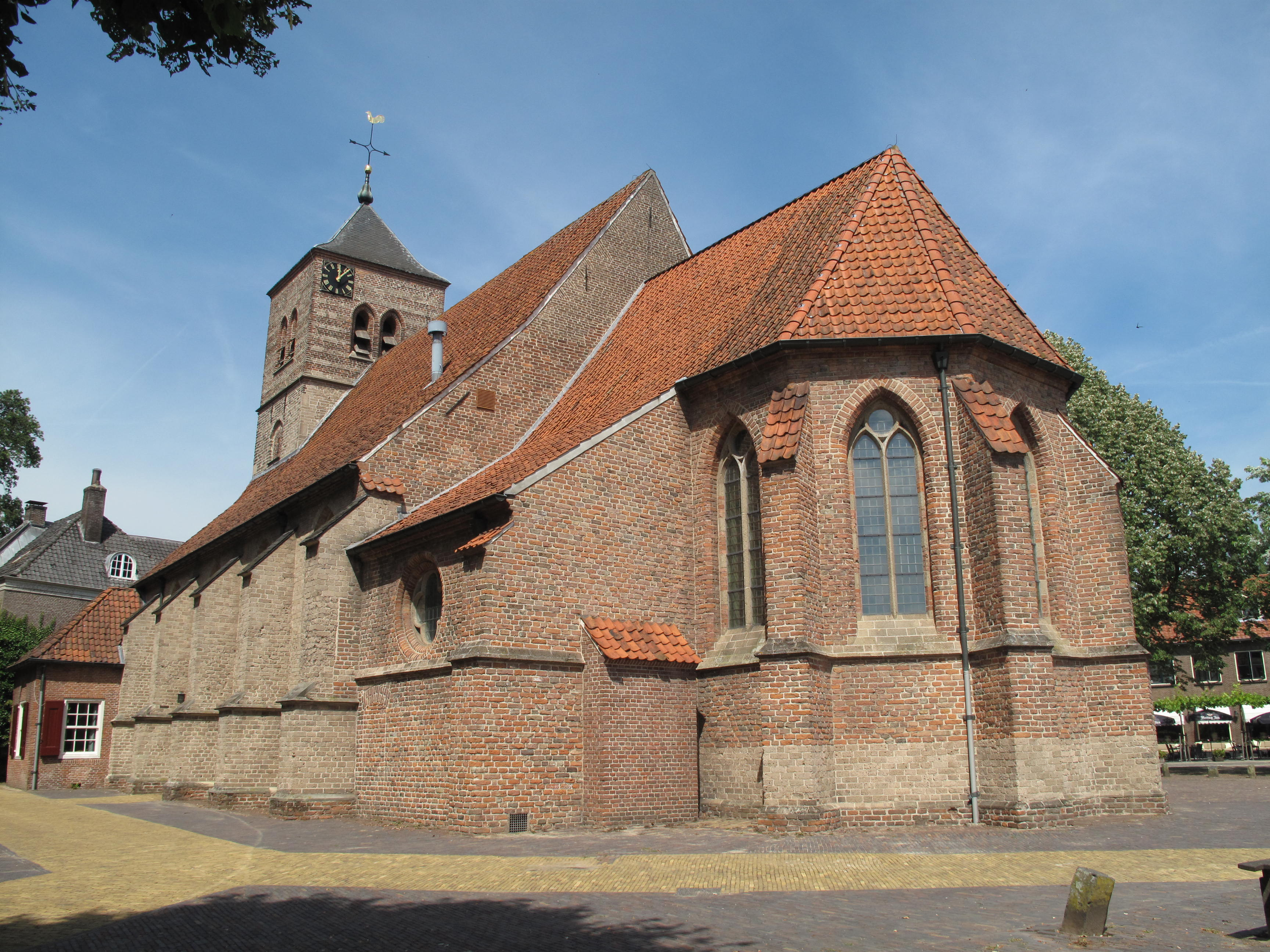 Warnsveld, church